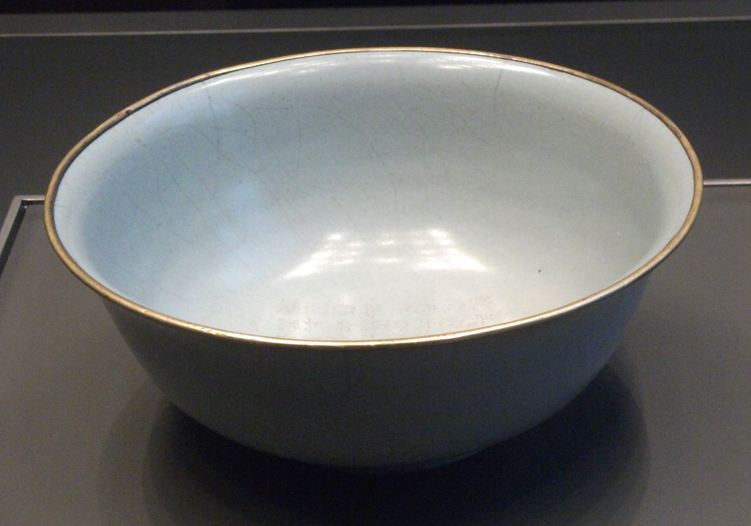 Percival David Collection, Room 95, British Museum